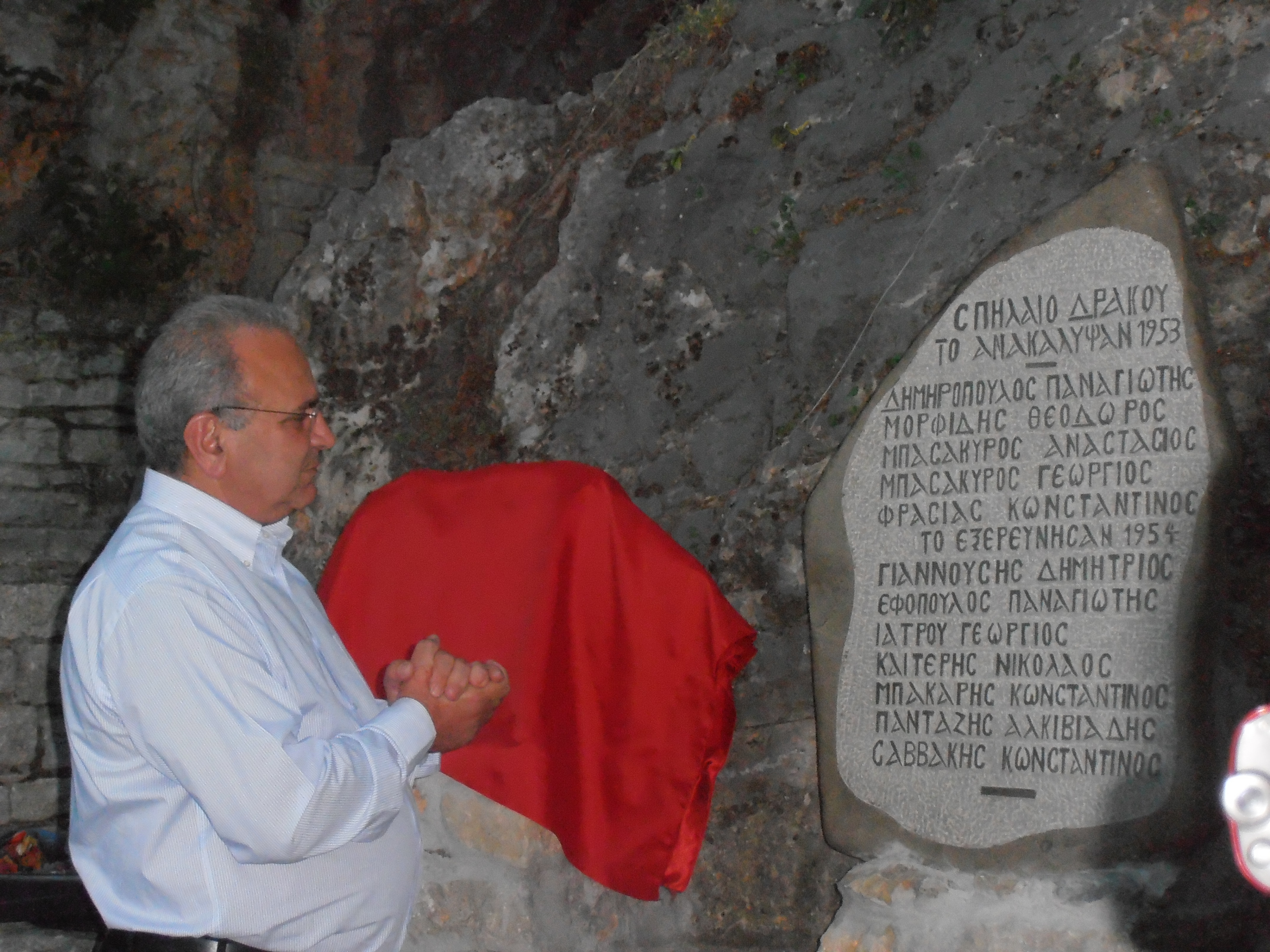 On June 26, 2012, the municipality of Kastoria city held an event outside Dragon Cave Museum (Greek: Μουσείο Σπηλιάς του Δράκου) where they awarded those who contributed to the discovery of the Cave and the founding of the museum. In this picture we can see the mayor of the town Emmanouel Chatzisimeonidis presenting the incription with the names of the first explorers.